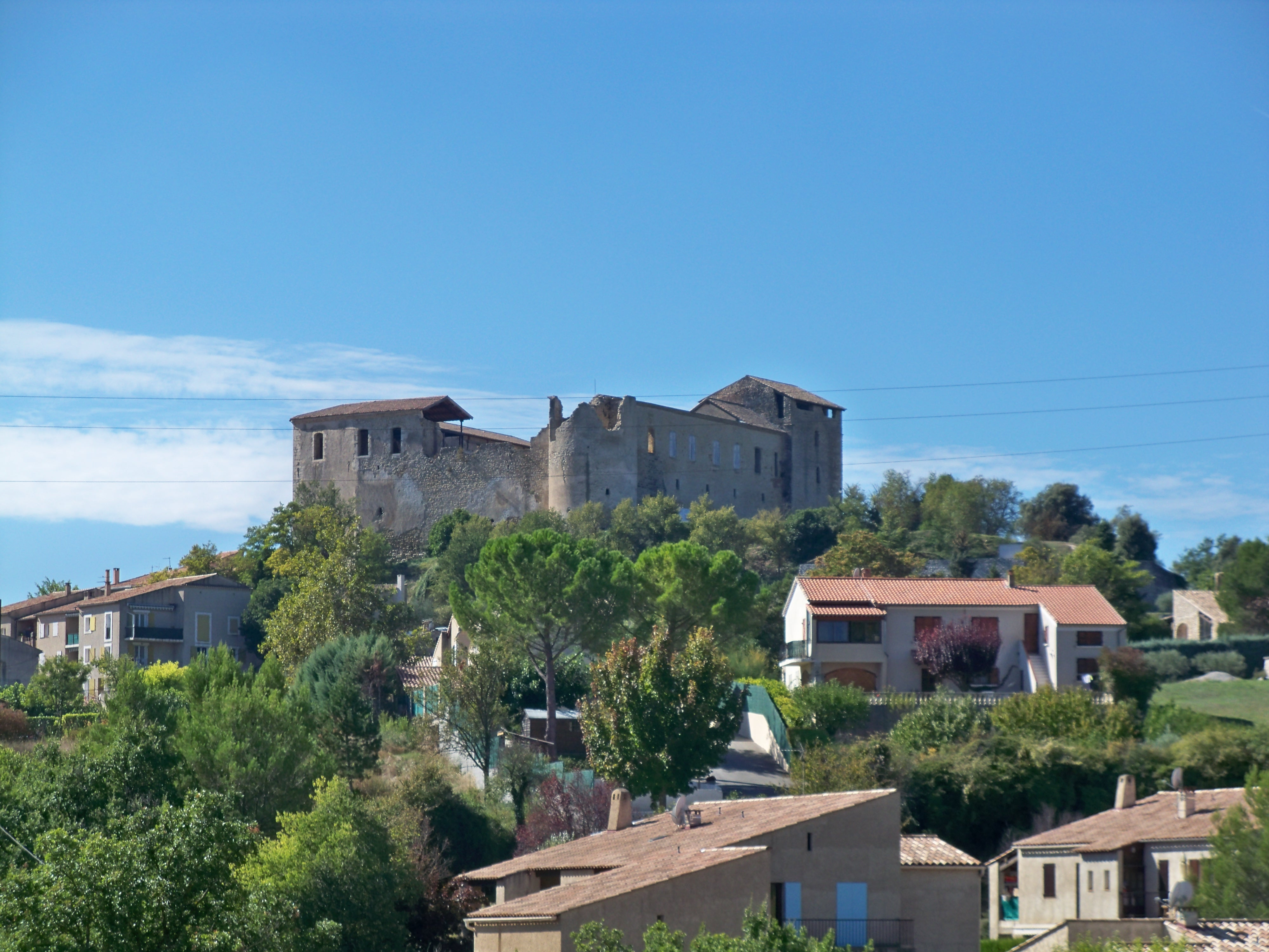 Gréoux castle